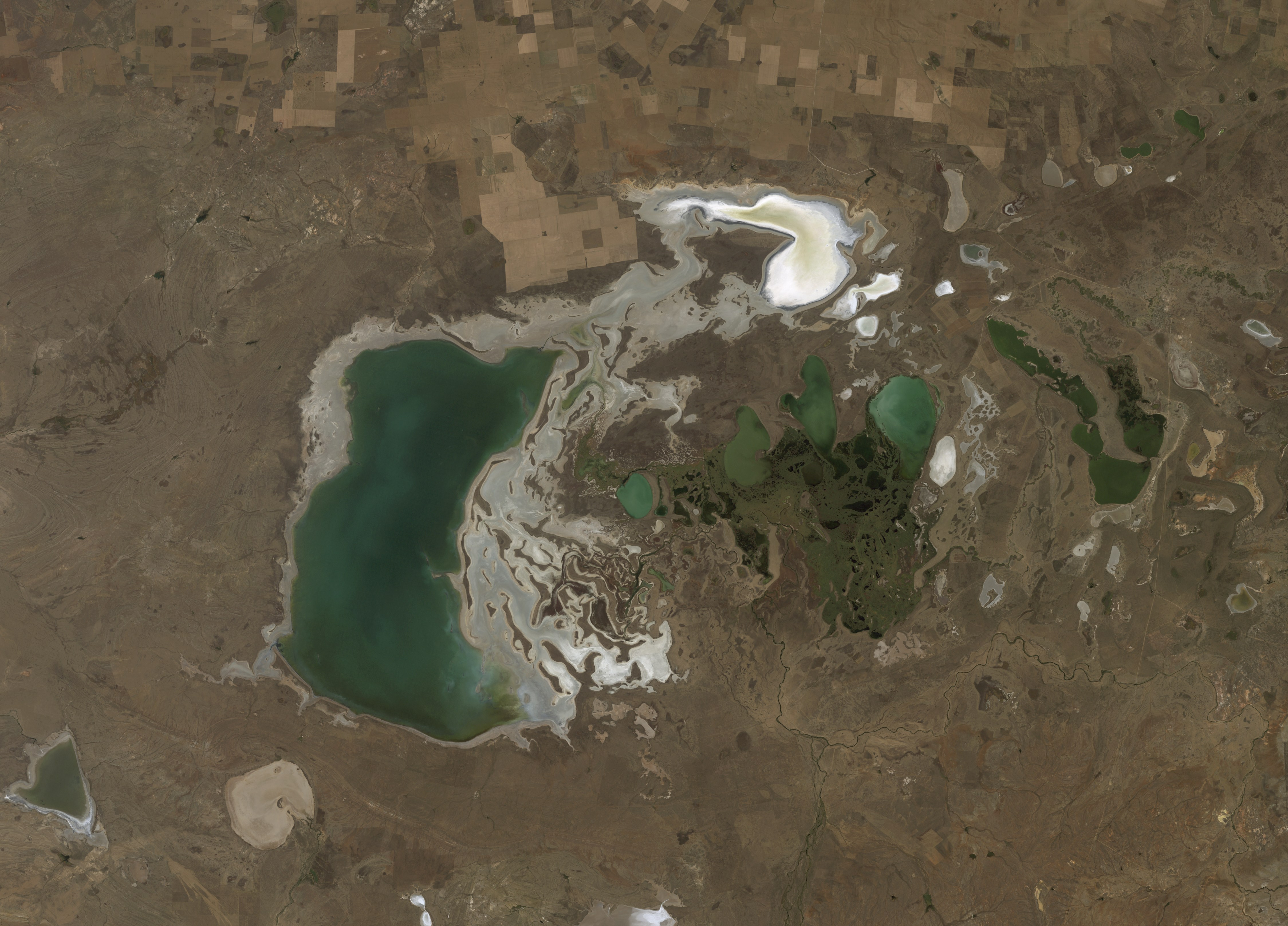 Tengiz lake, Kazakhstan, near natural colors satellite image LandSat-5, spatial resolution 30 m, 2011-09-03